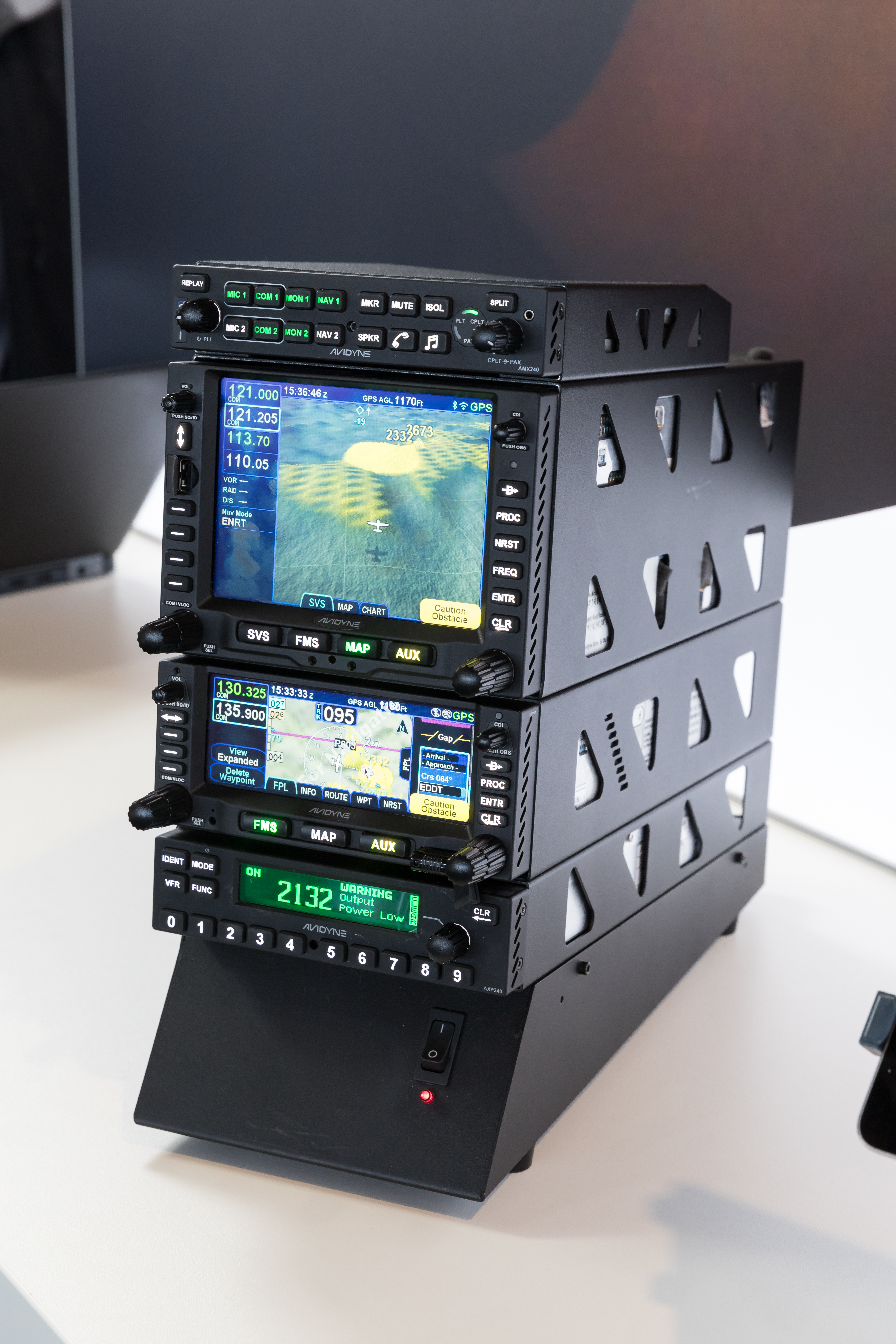 Avidyne air navigation system, AERO Friedrichshafen 2018